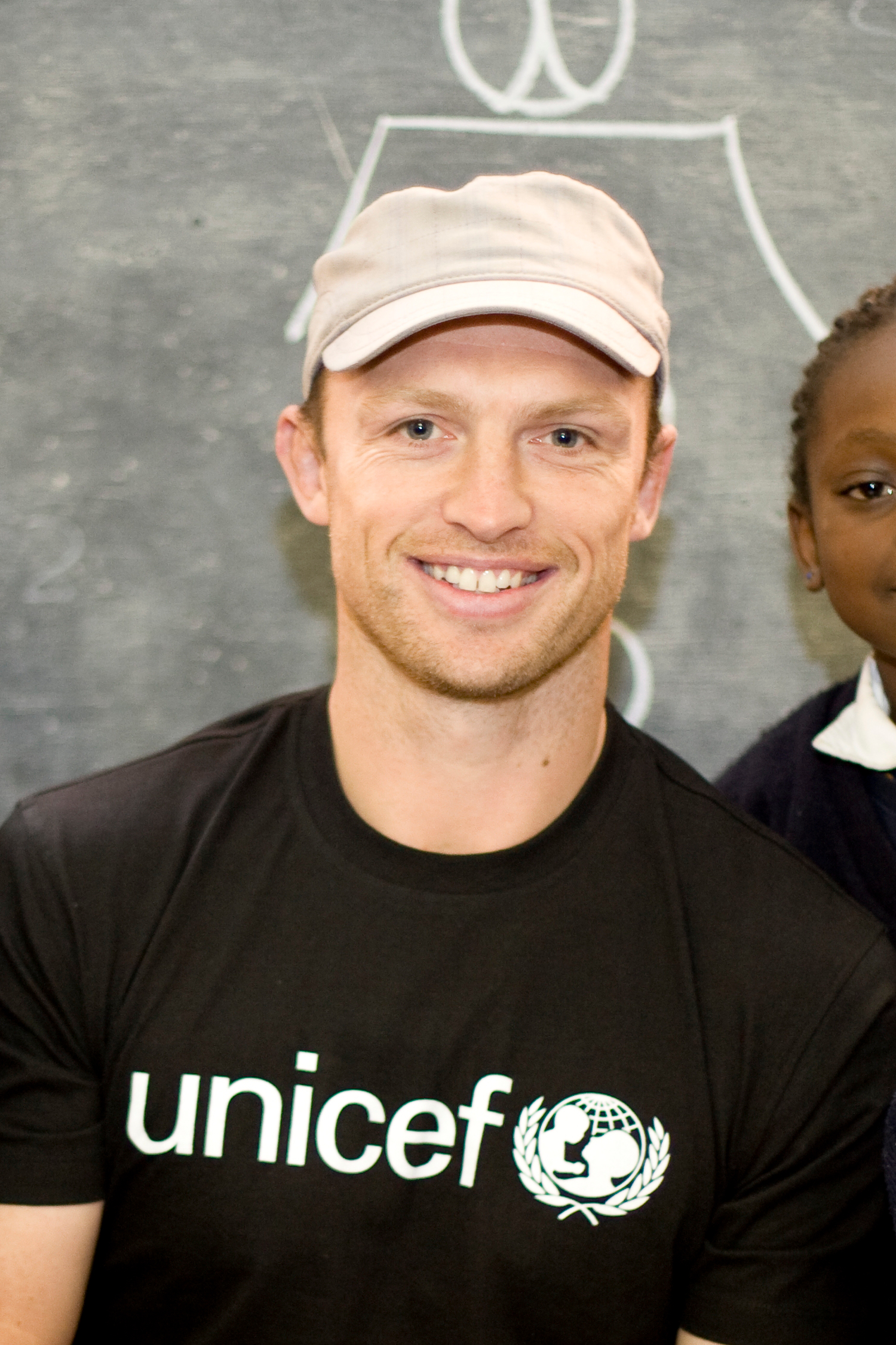 Former English rugby union player Matt Dawson, now UNICEF Ambassador, meets pupils at the UNICEF funded Albert School in Johannesburg, South Africa